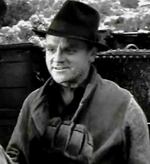 screenshot of James Cagney from the film White Heat